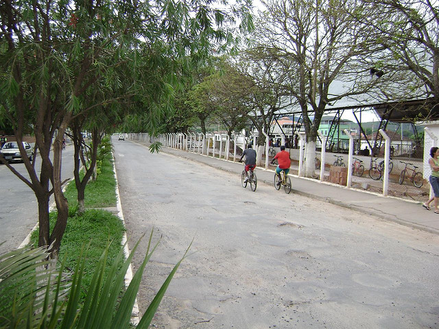 Avenue in Lima Duarte, Minas Gerais, Brazil.